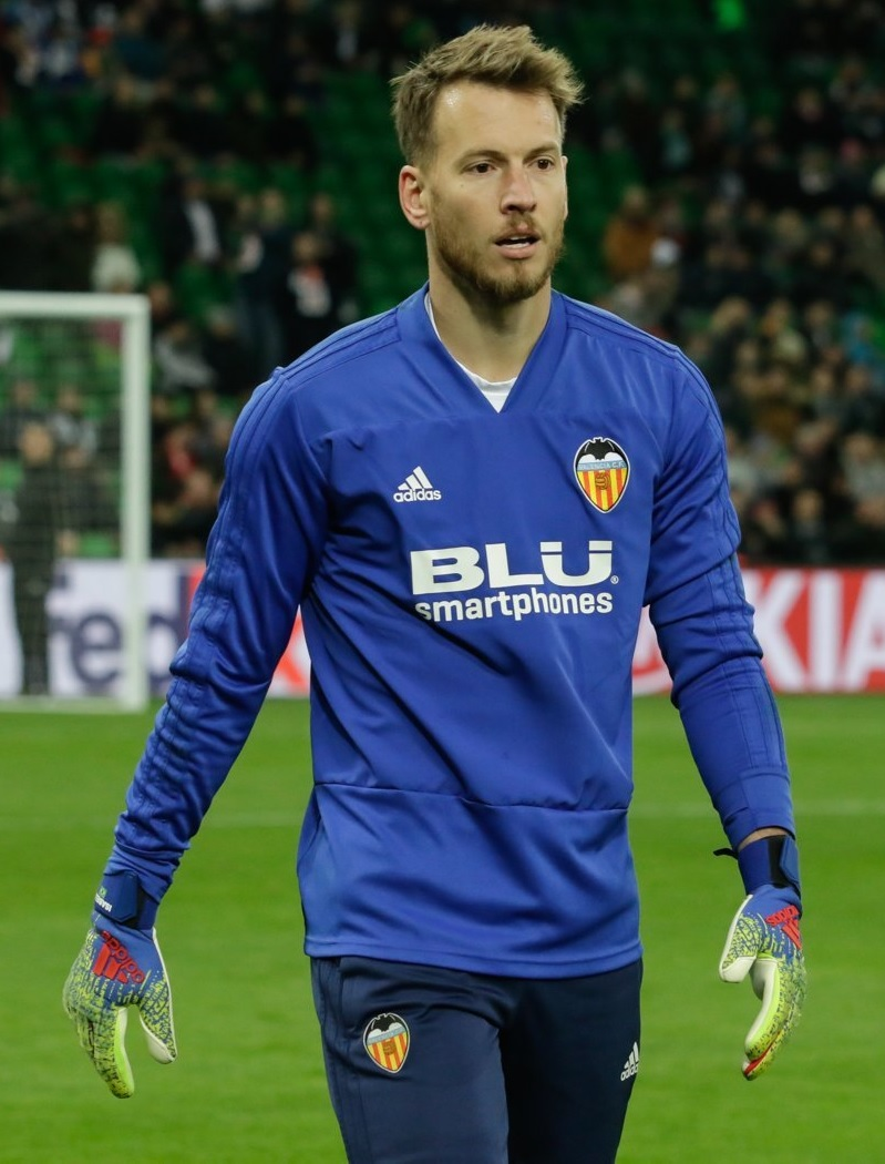 Norberto Murara Neto with Valencia CF in an Europa League game against FC Krasnodar.